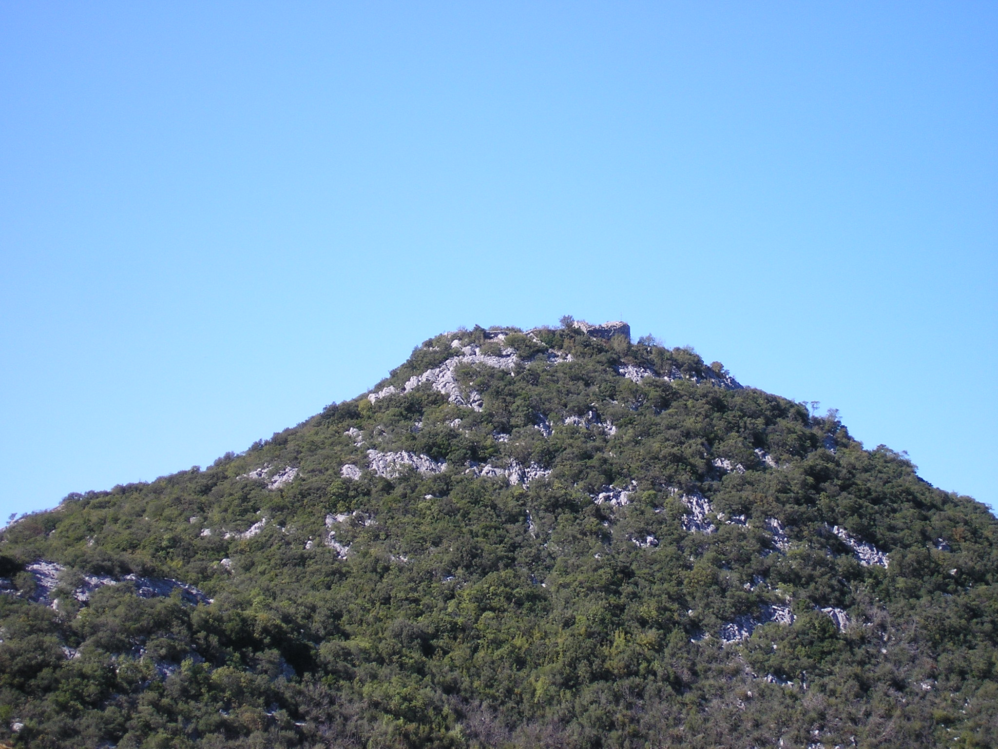 Vratar fortress